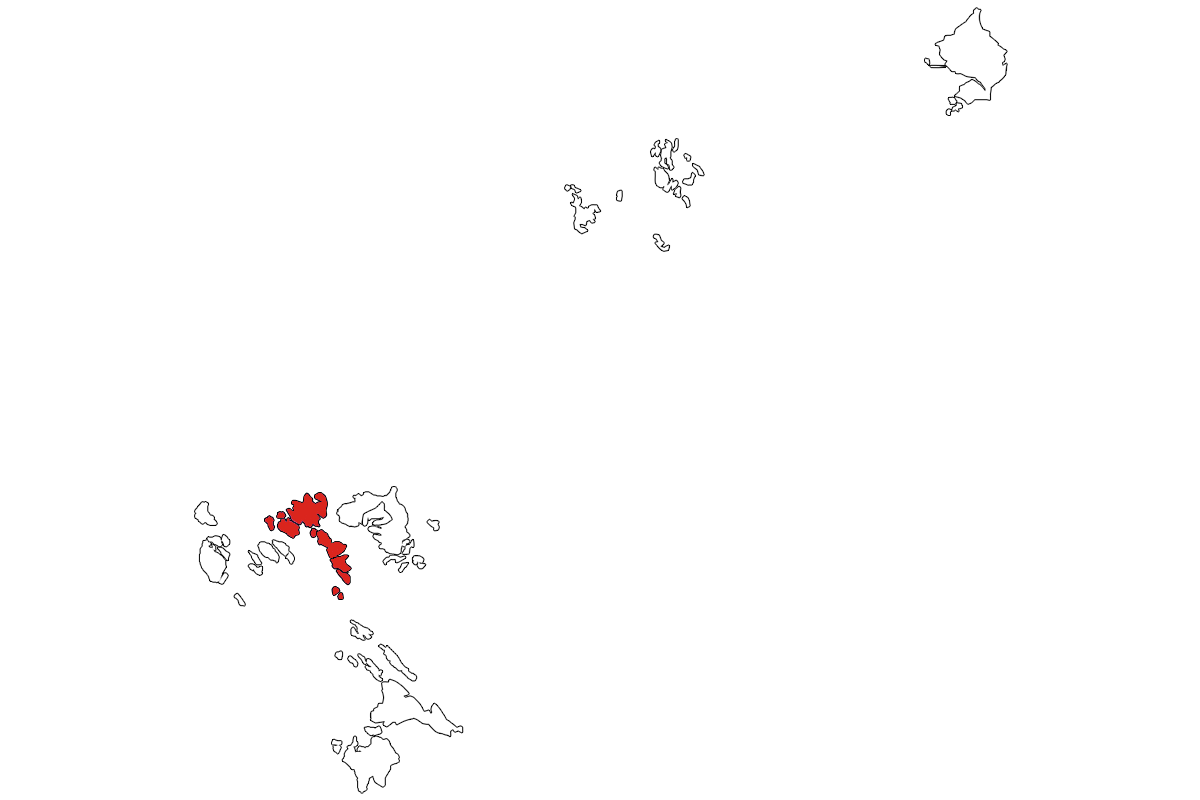 Locator of Batam City within Riau Islands Province